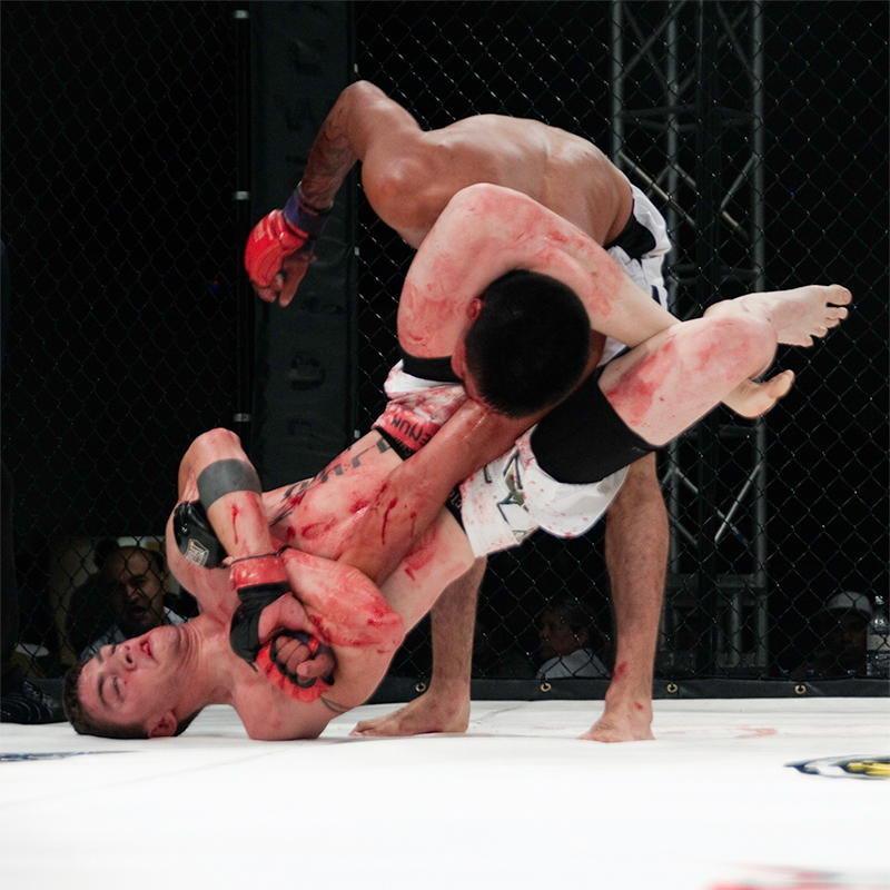 Bloody triangle-armbar attempt in an amateur MMA event.